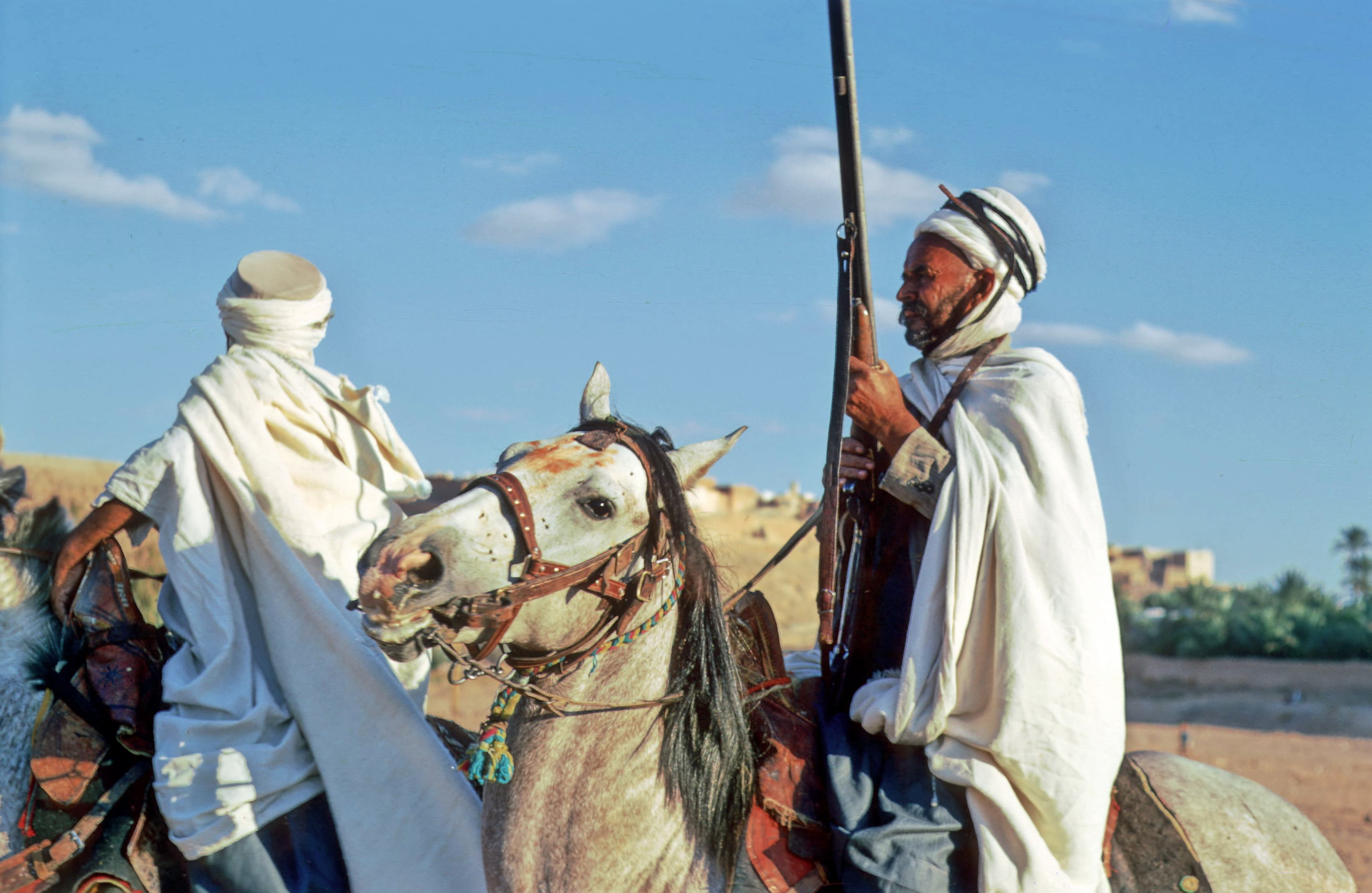 Presentation of the Berber Cavalry, wedding ceremony, Ghardaia, Algeria